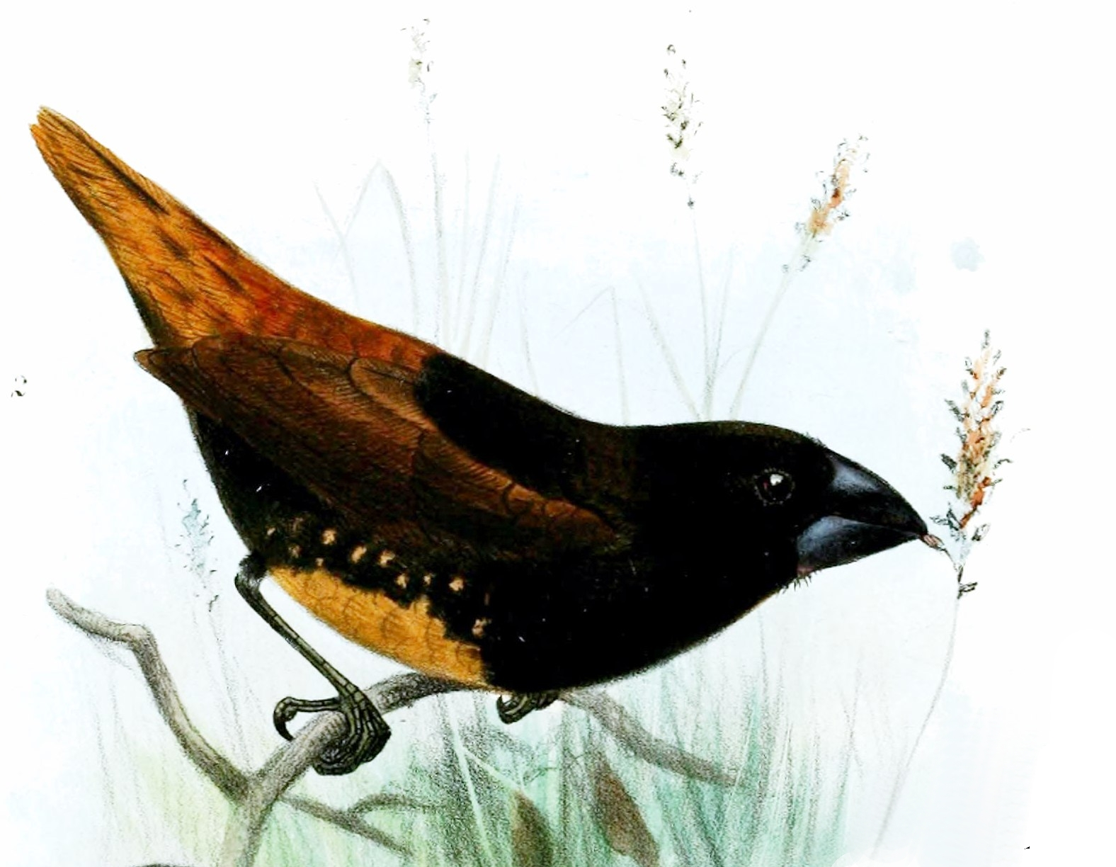 Thick-billed Munia (above); Black Bushchat (below)